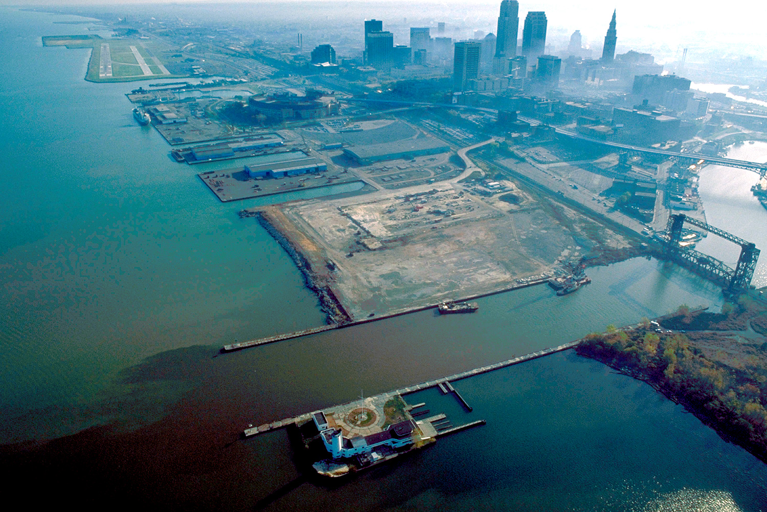 Aerial view of Cleveland, Ohio, USA, on the shores of Lake Erie. The mouth of the Cuyahoga River is visible in the foreground and Cleveland's Burke-Lakefront Airport is visible in the top left of the picture. View is to the northeast